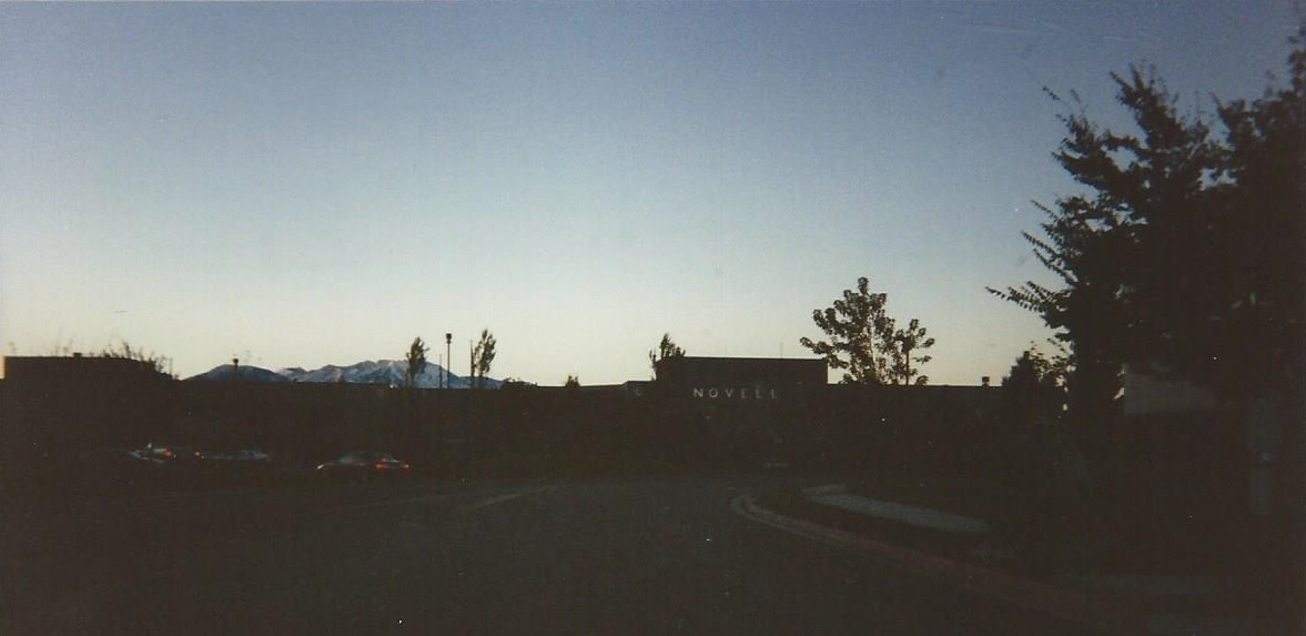 Novell's WordPerfect building in Orem, Utah, as seen in the early morning.